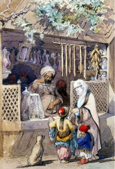 Romania, Balkans, TurkeyAuthority control : Q3675462 VIAF: 2741854 ISNI: 0000 0000 8082 574X ULAN: 500119781 LCCN: n85197102 GND: 131791583 WorldCat creator QS:P170,Q3675462 Turkish Figures at a Sweetmeat Stall 1851